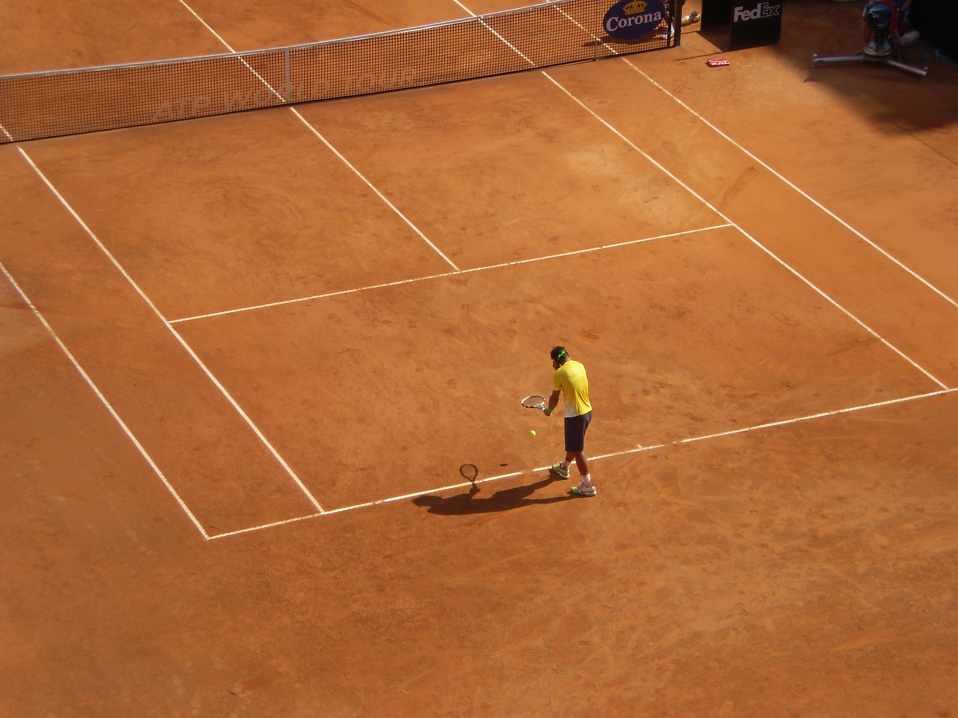 Rafael Nadal in Rome 2011